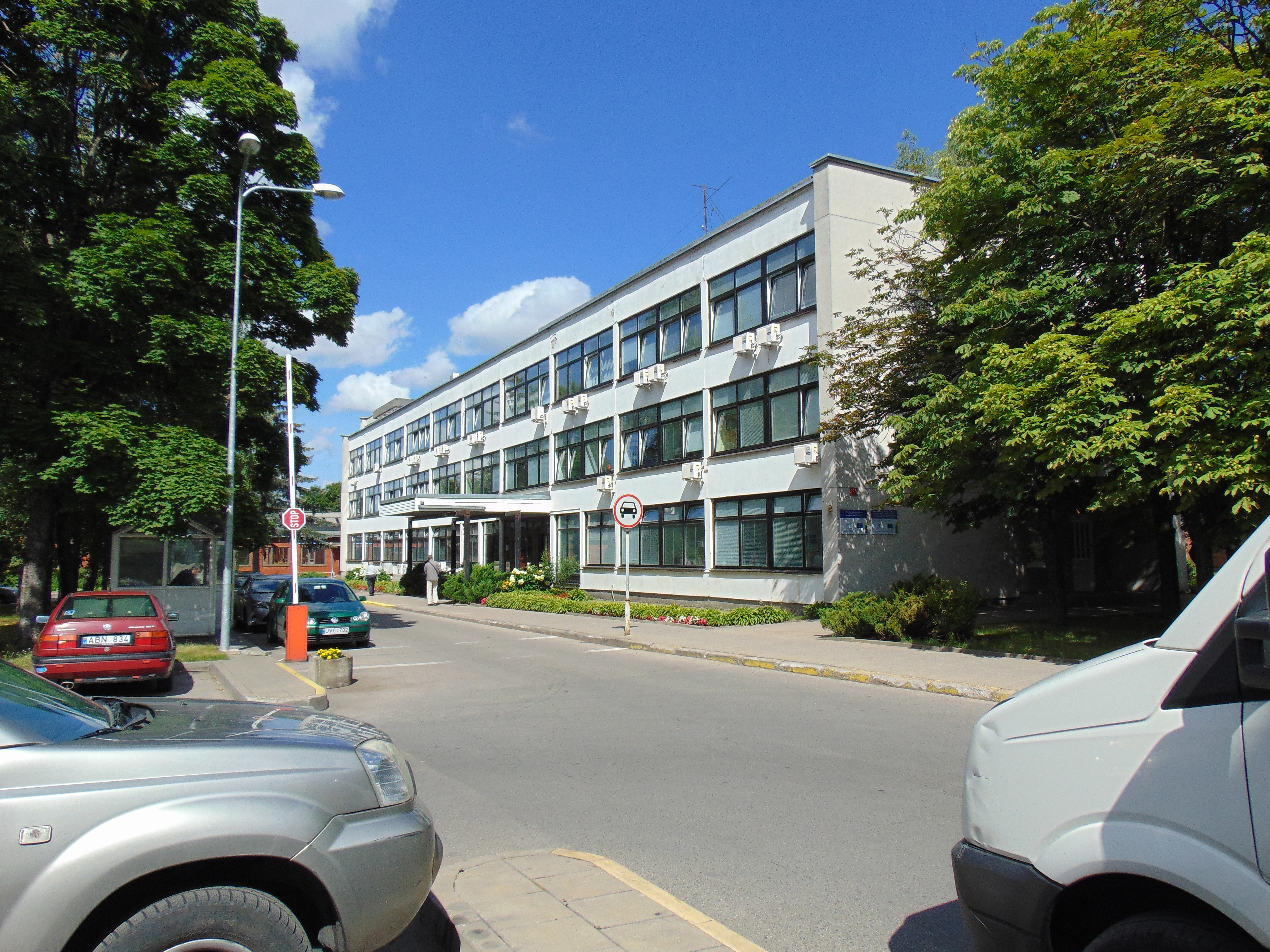 Antakalnis' Hospital